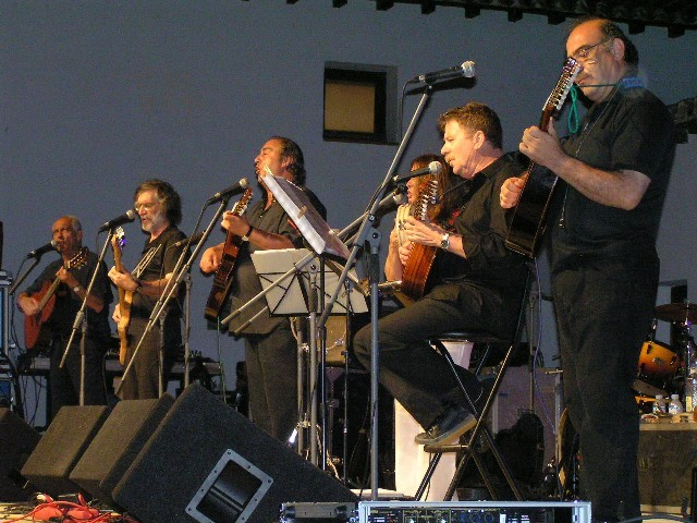 Nuevo Mester de Juglaría performing live, open air, in Esquivias (Toledo)